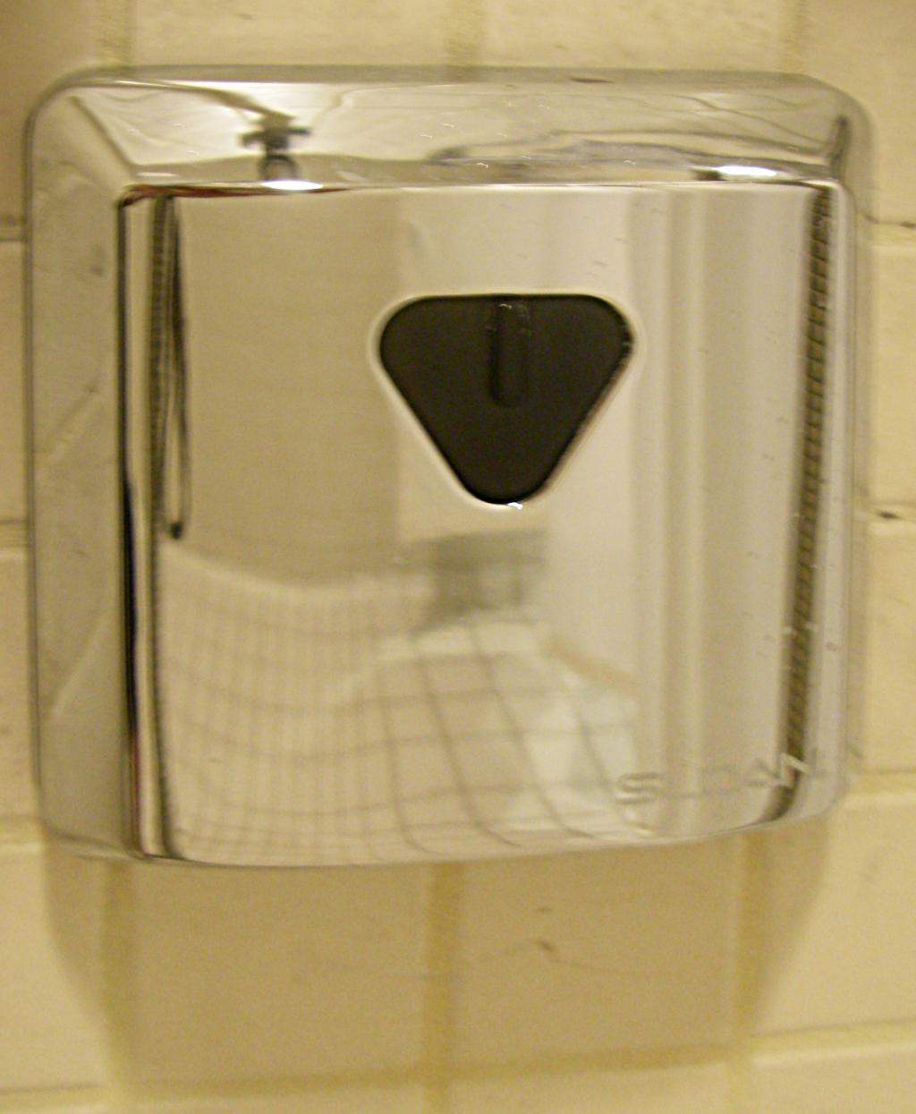 One of several wall-mounted sensors installed in a shower room, to control the shower nozzle above it.